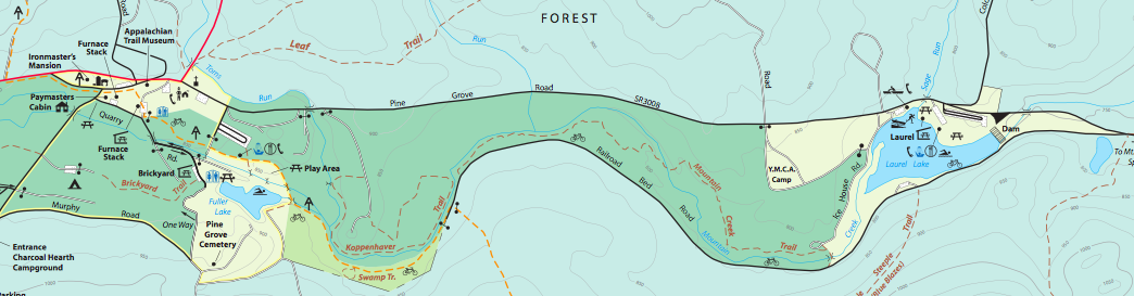 Map of the Pine Grove Furnace State Park provided by the Pennsylvania Department of Conservation and Natural Resources.